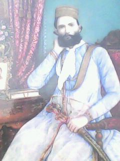 The Picture of Rao Karan Singh (rular of Barauli estate)